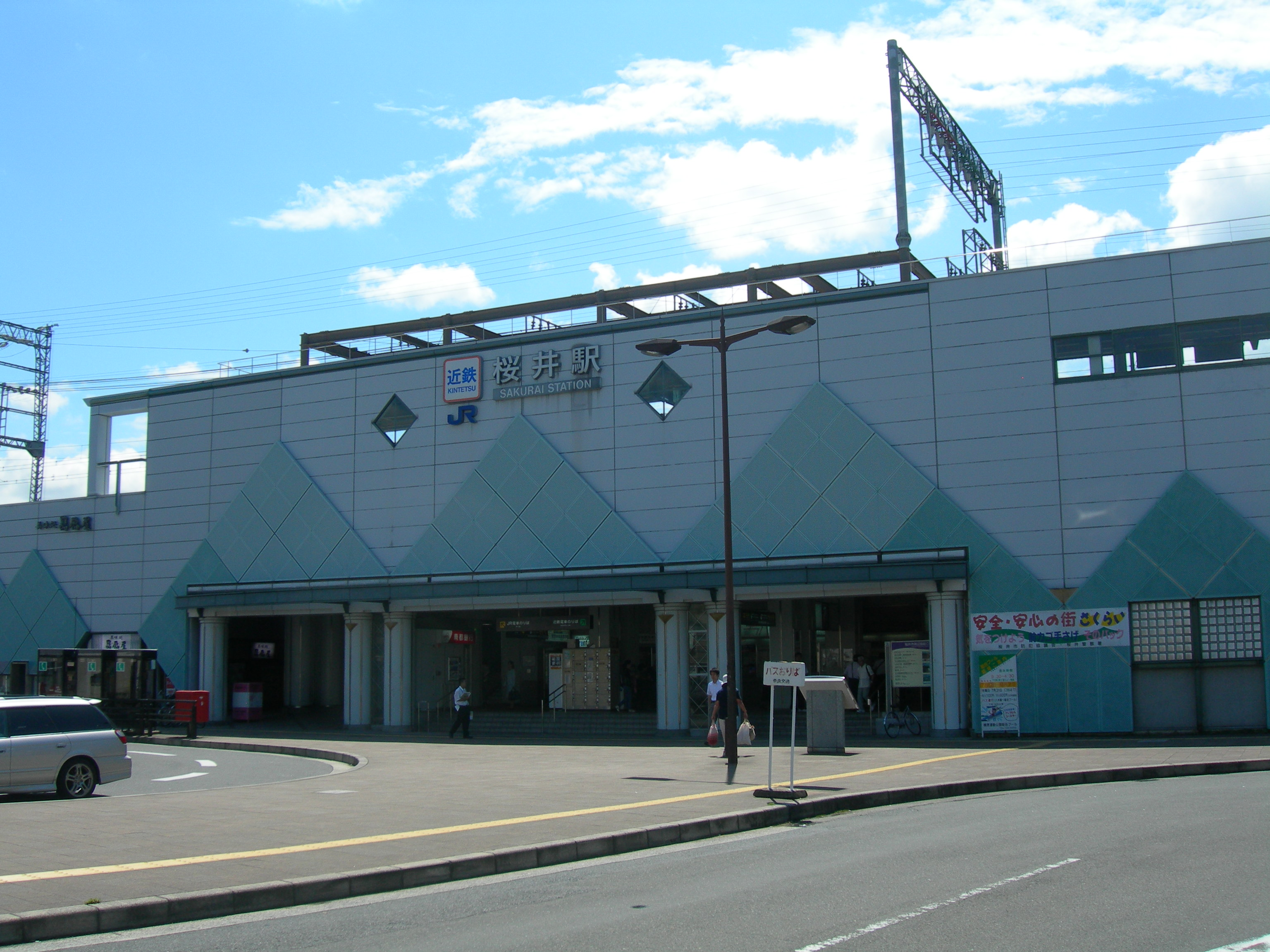 West Japan Railway Company, Sakurai Line, Sakurai Station. Kintetsu Corporation, Ōsaka Line, Sakurai Station.